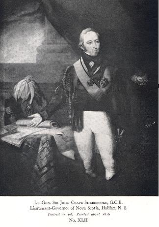 Sir John Coape Sherbrooke (1764-1840)